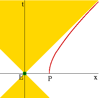 This image illustrates a spacetime diagram containing the world line of a uniformly accelerating particle, P, and the light cone of an event, E. The event's light cone never intersects the world line of the particle; the event is therefore beyond an event horizon perceived in the particle's accelerating reference frame. I, the author of this image, hereby release it for use under the Creative Commons "Share Alike" license. --Christopher Thomas 05:34, 25 June 2006 (UTC)